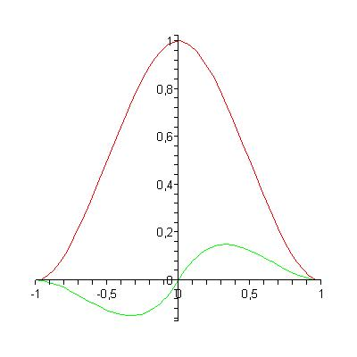 Base functions for Hermite finite elements associated to knot 0 with two neighboring nots in +1 and -1